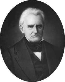 Montgomery Bell portrait circa 1840-1850